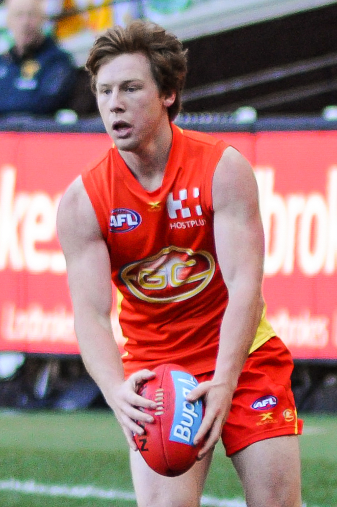 Jesse Joyce during the AFL round twelve match between Melbourne and Collingwood on 10 June 2017 at the Melbourne Cricket Ground in Melbourne, Victoria.